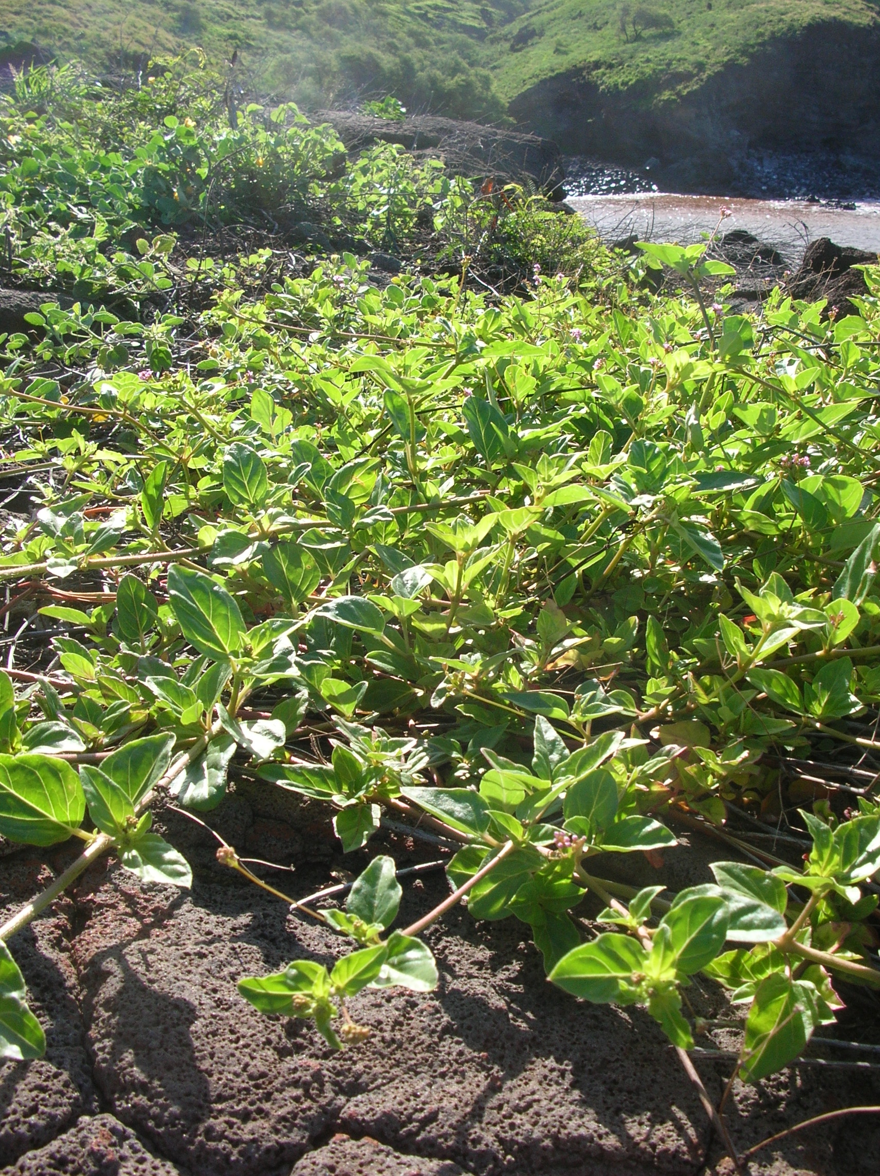 Boerhavia acutifolia (habit). Location: Lanai, Kiei